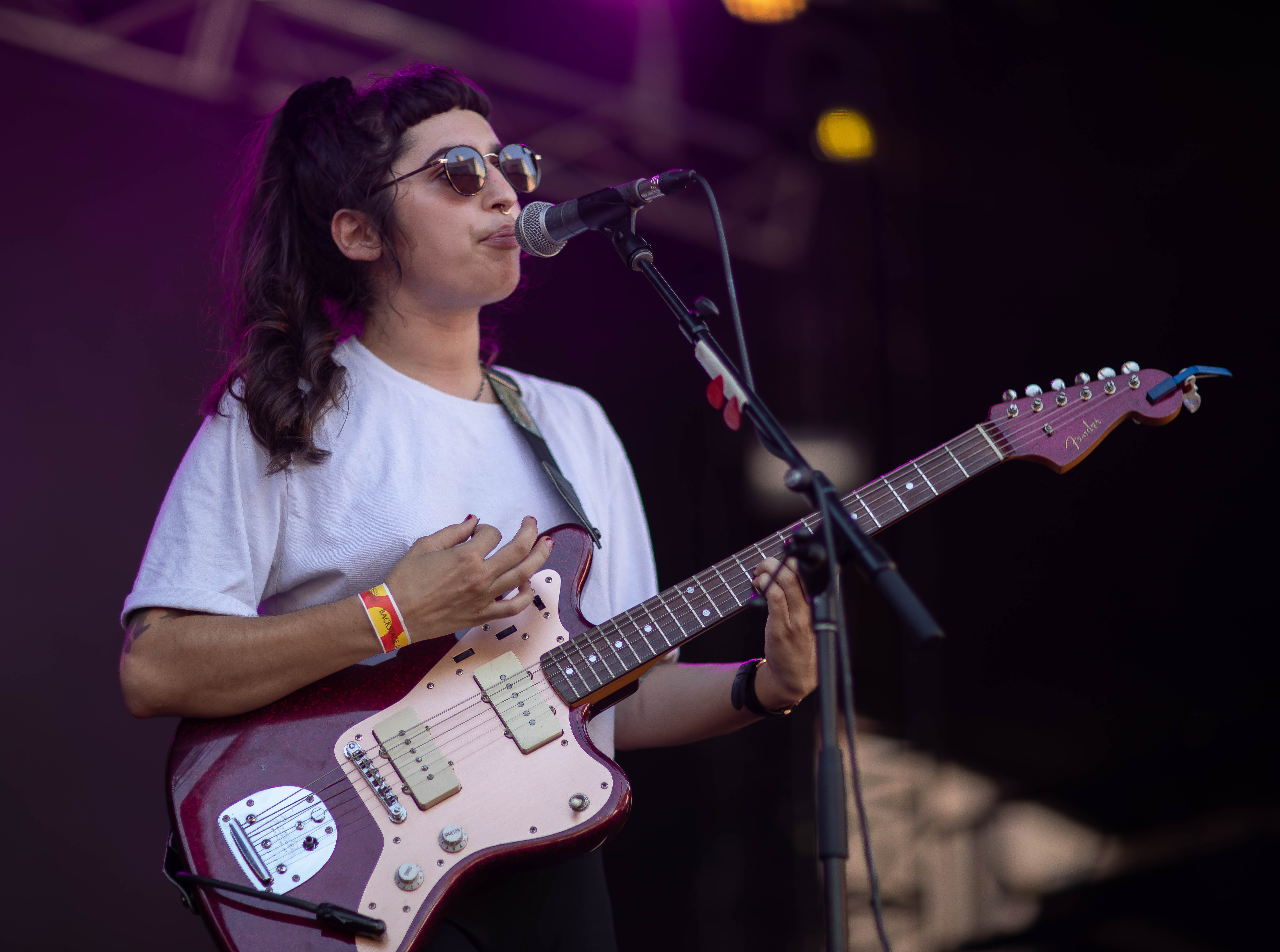 Musician Georgia "Maq" McDonald performing with Camp Cope at St Jerome's Laneway Festival, 2019